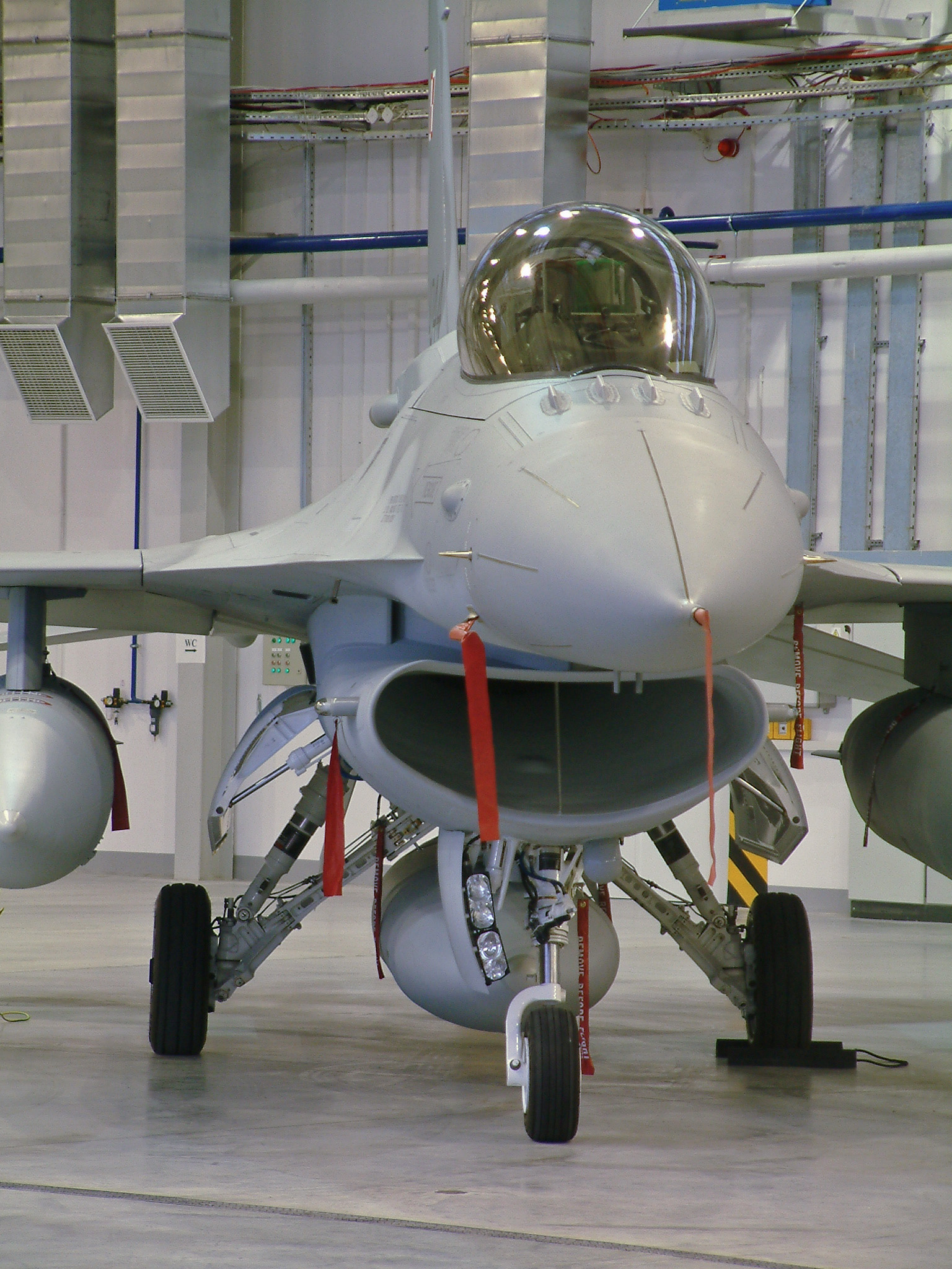 F-16C block 52+ #4044 of Polish Air Force, 31st Air Base Poznań-Krzesiny